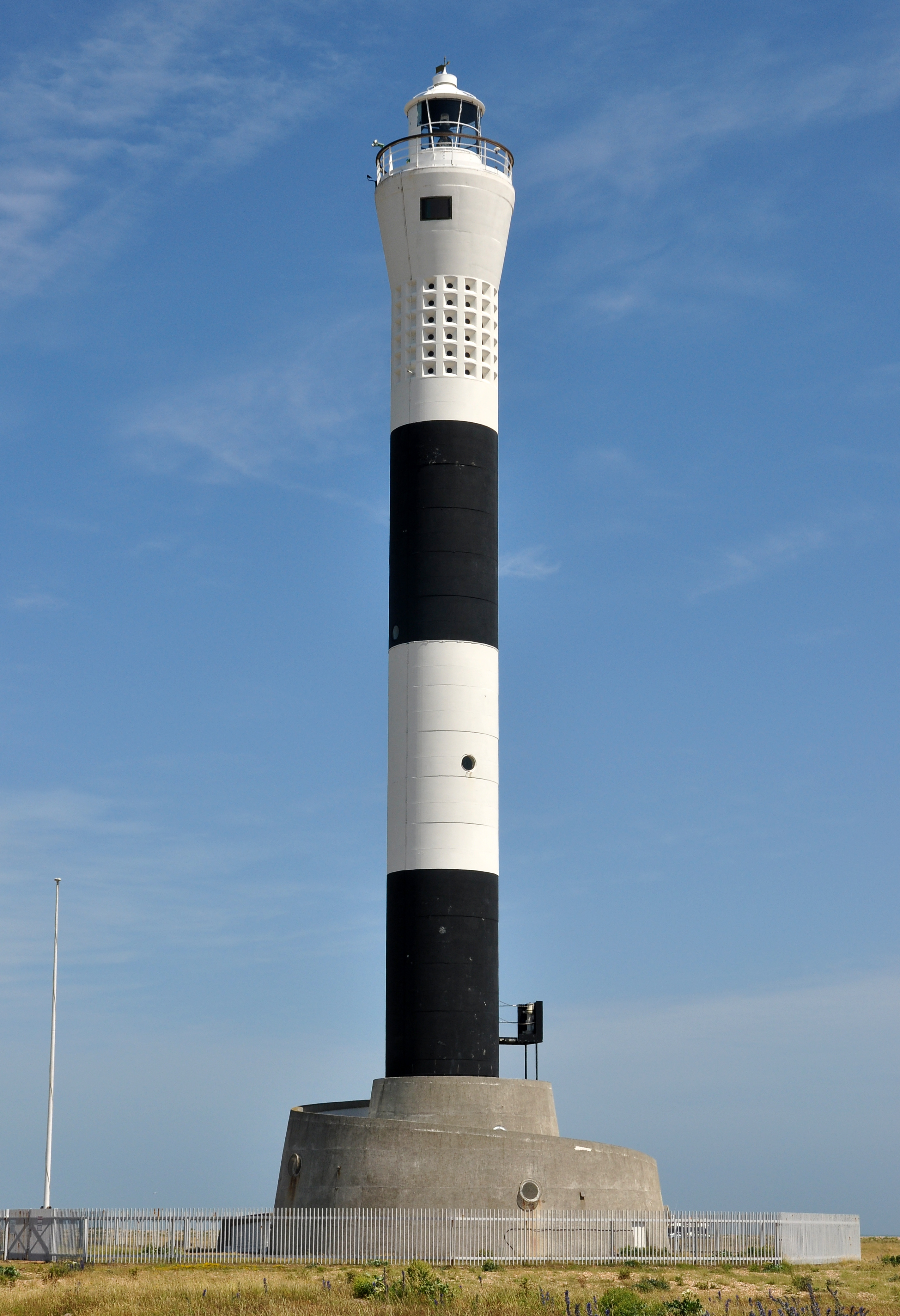 Dungeness New Lighthouse in Kent.